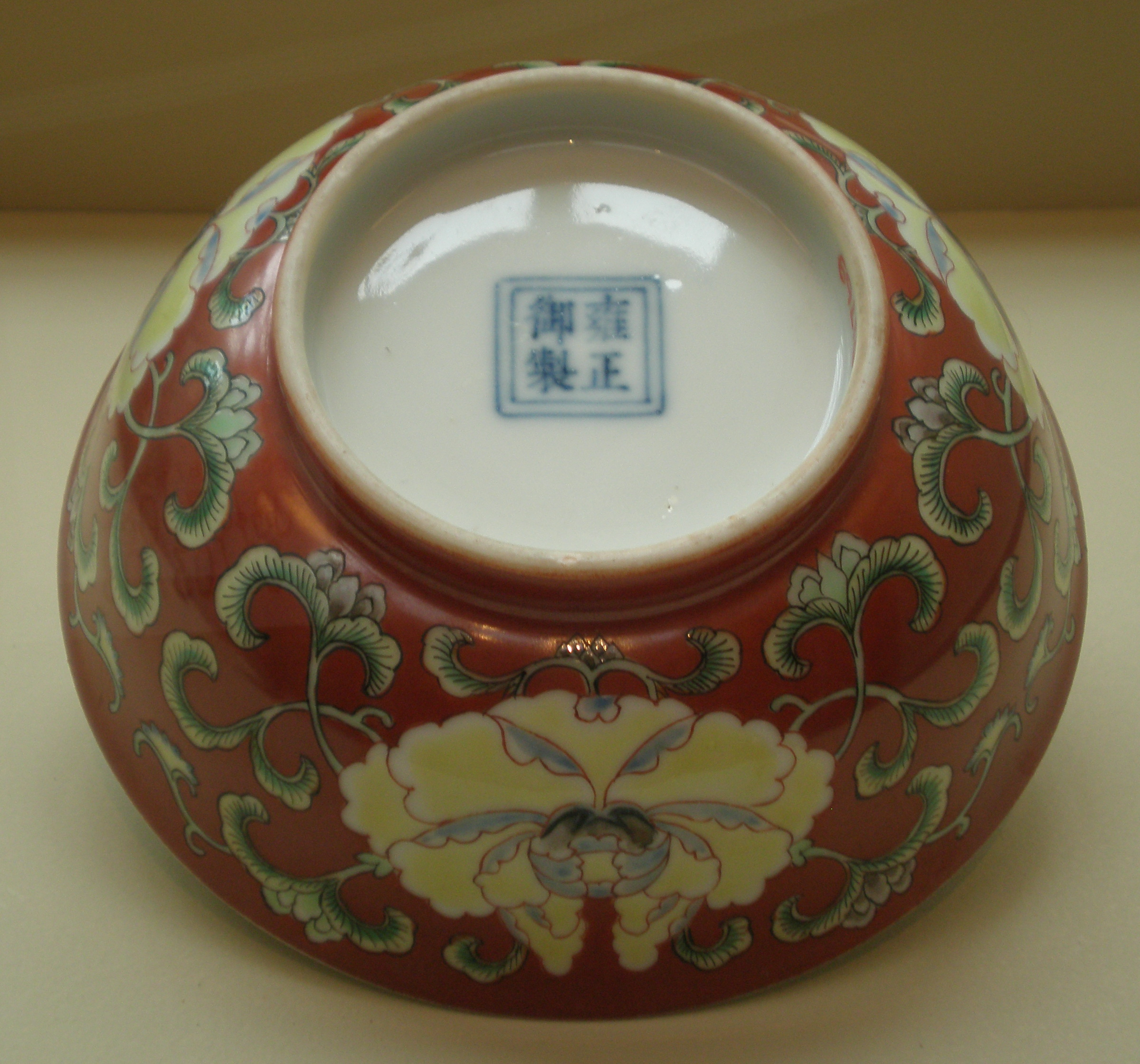 Shallow bowl with flowers, Jingdezhen, Jiangxi Province, Qing Dynasty, reign of the Yongzheng emperor (1723-35). On display at the Asian Art Musem of San Francisco. B60P1769